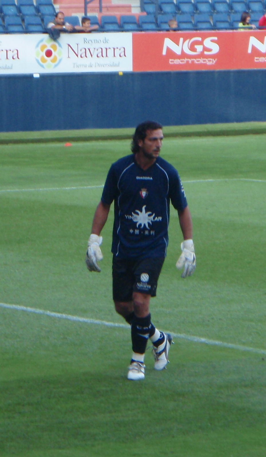 Photo of Ricardo López Felipe playing goal for Osasuna in a preseason match against Racing Santander